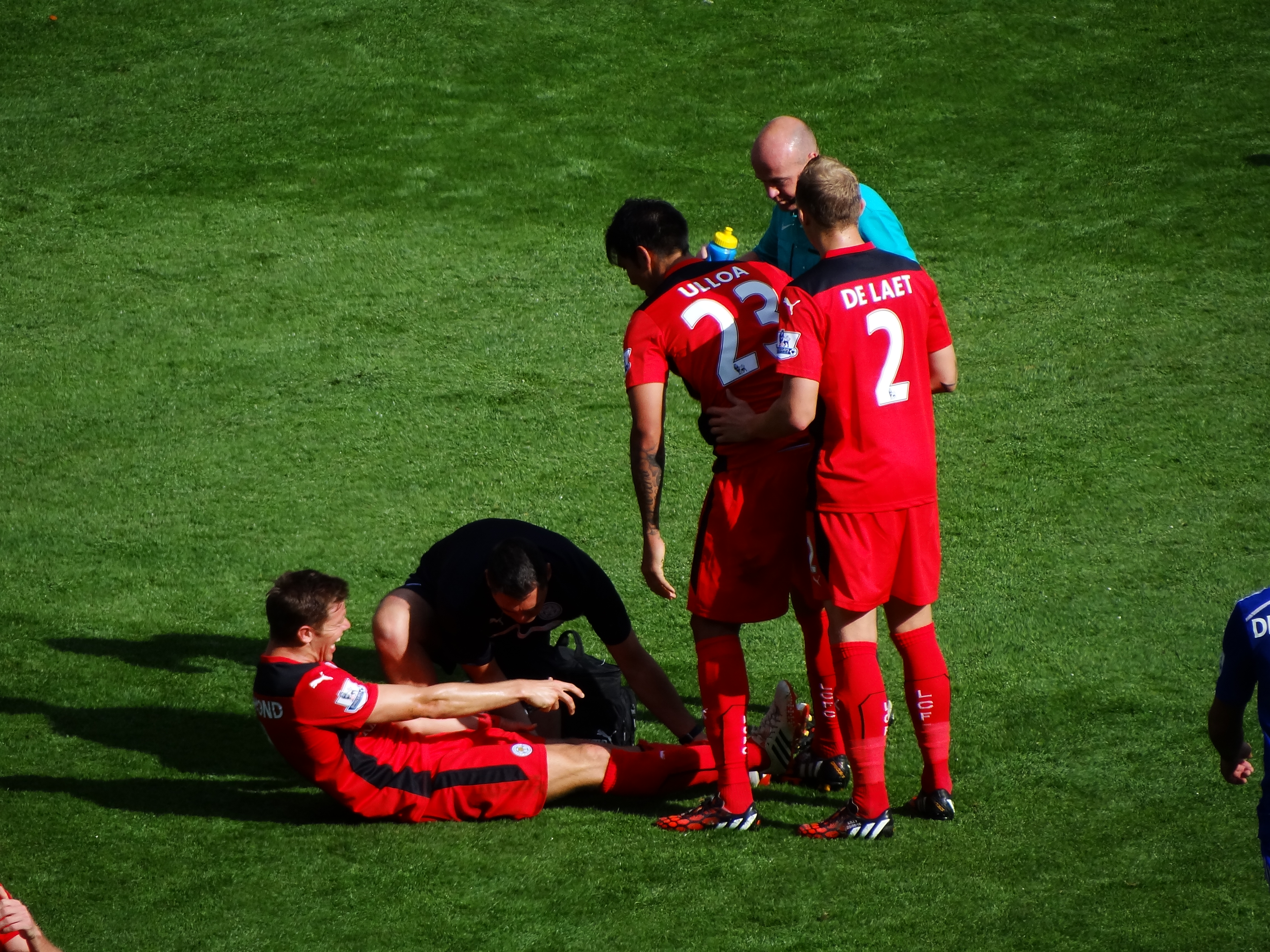 Dean Hammond, Leonardo Ulloa and Ritchie De Laet of Leicester City in 2014.